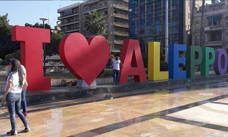 I love Aleppo monument in saad alla al-jaberi square in Aleppo,Syria